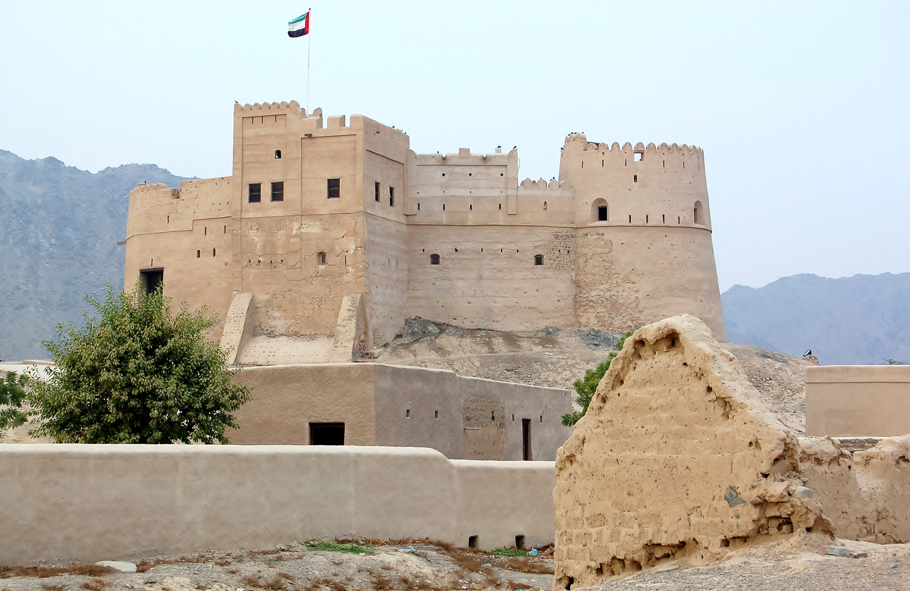 View of the Fujairah Fort, Fujairah City, Fujairah, United Arab Emirates.